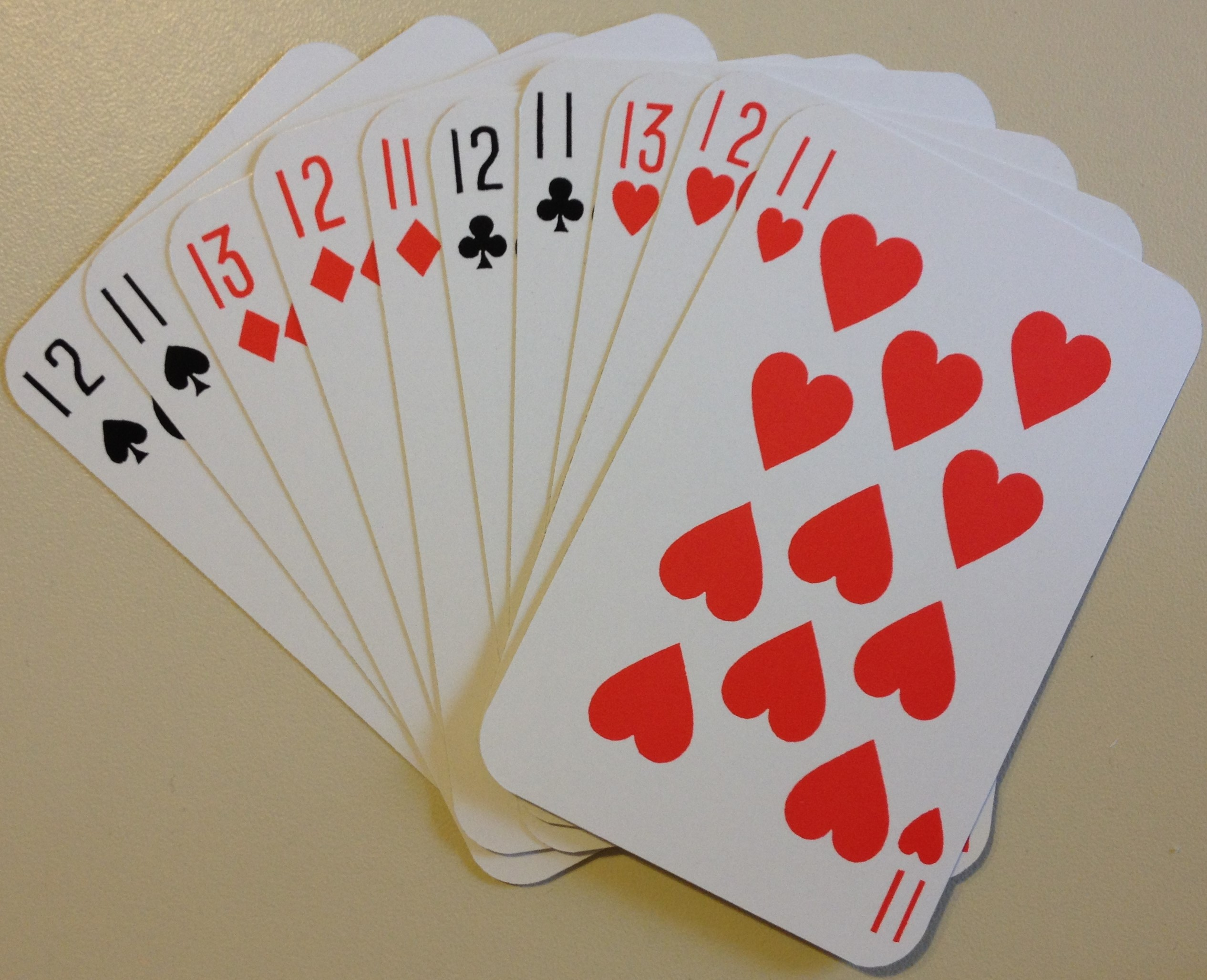 Extra cards for playing the six-handed version of the Euchre variant, 500.